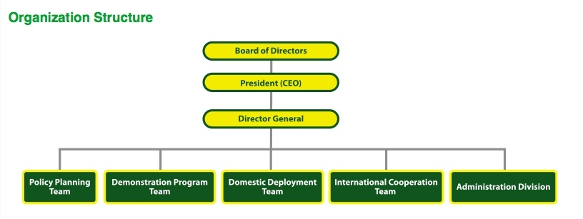 KSGI Organization Structure.